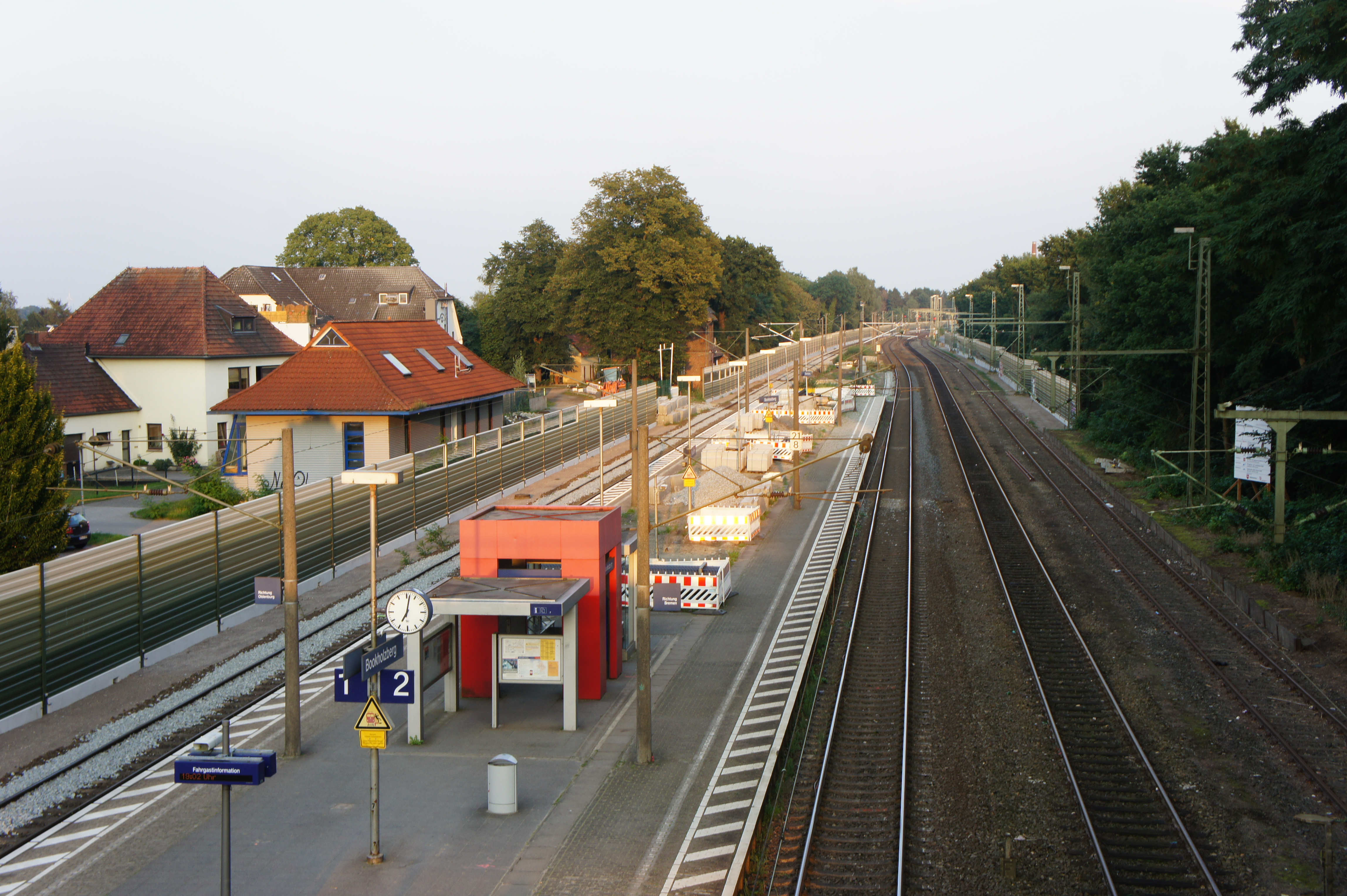 Railway Station Bookholzberg. Bremen-Oldenburg railway line